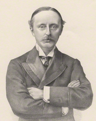 Edward Stanhope, statesman